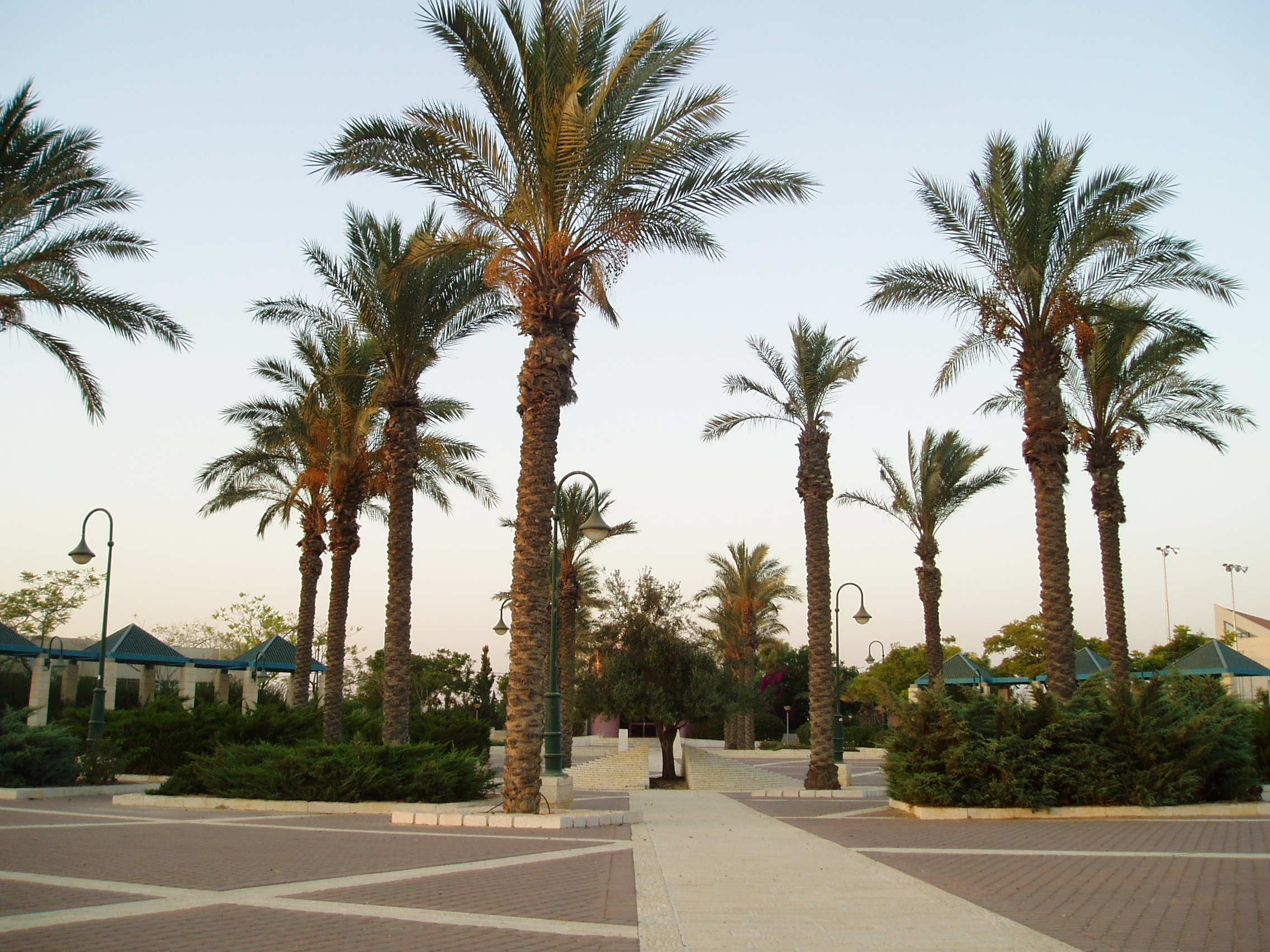 Lehavim, Israel. Central square, with the olive tree marking the symbolic central point of the older Lehavim district.